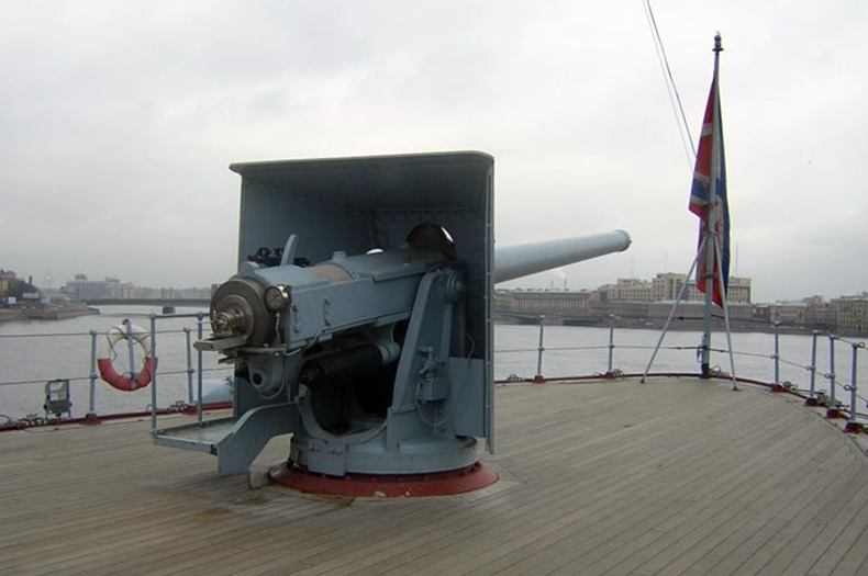 Made by myself 15-apr-2006 in St.-Peterspurg, Russia. Cruiser Aurora's forward gun. According to official version, the shot of this gun gave the signal to the starting of russian revolution in 1917.